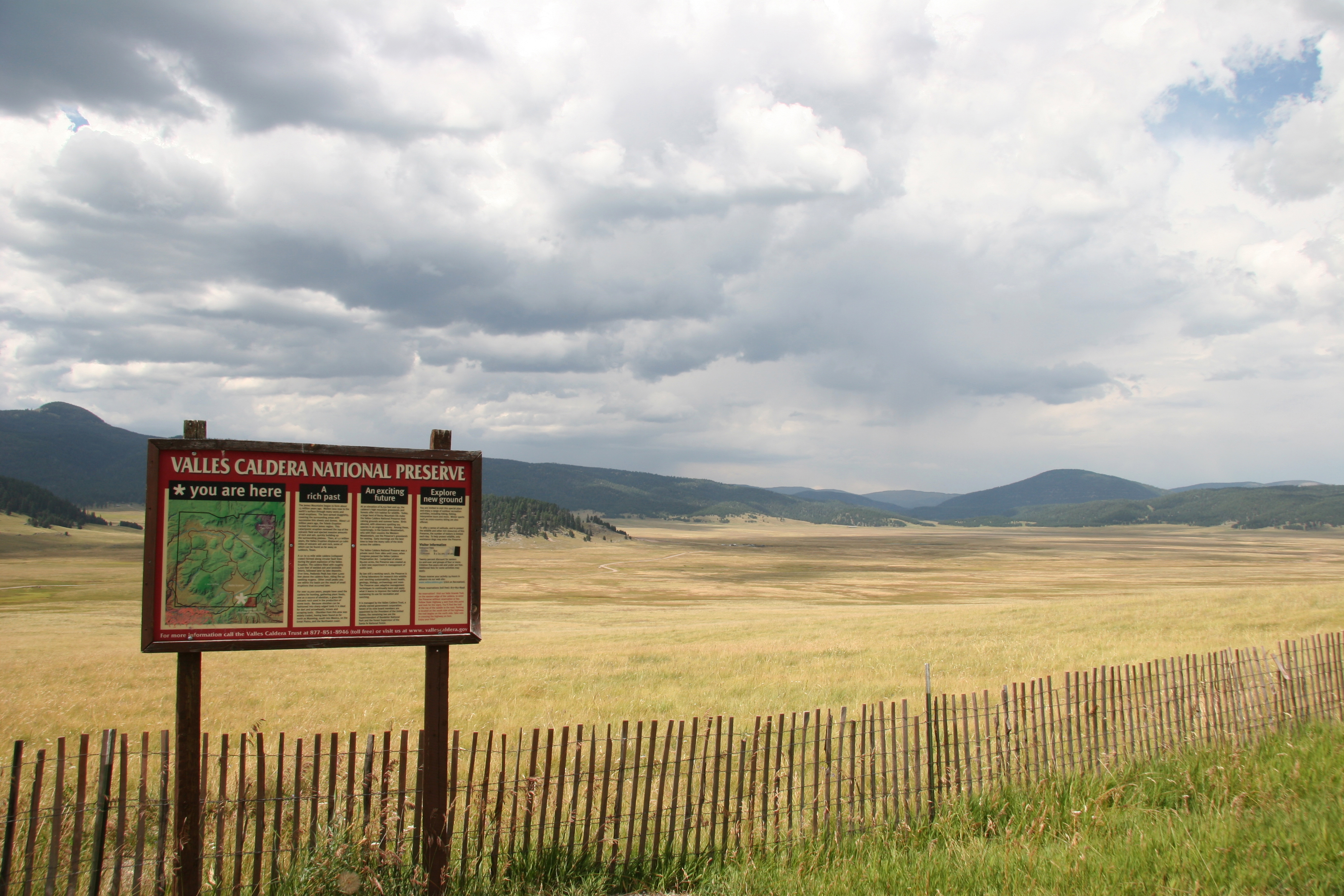 Valles Caldera of Jemez Mountains